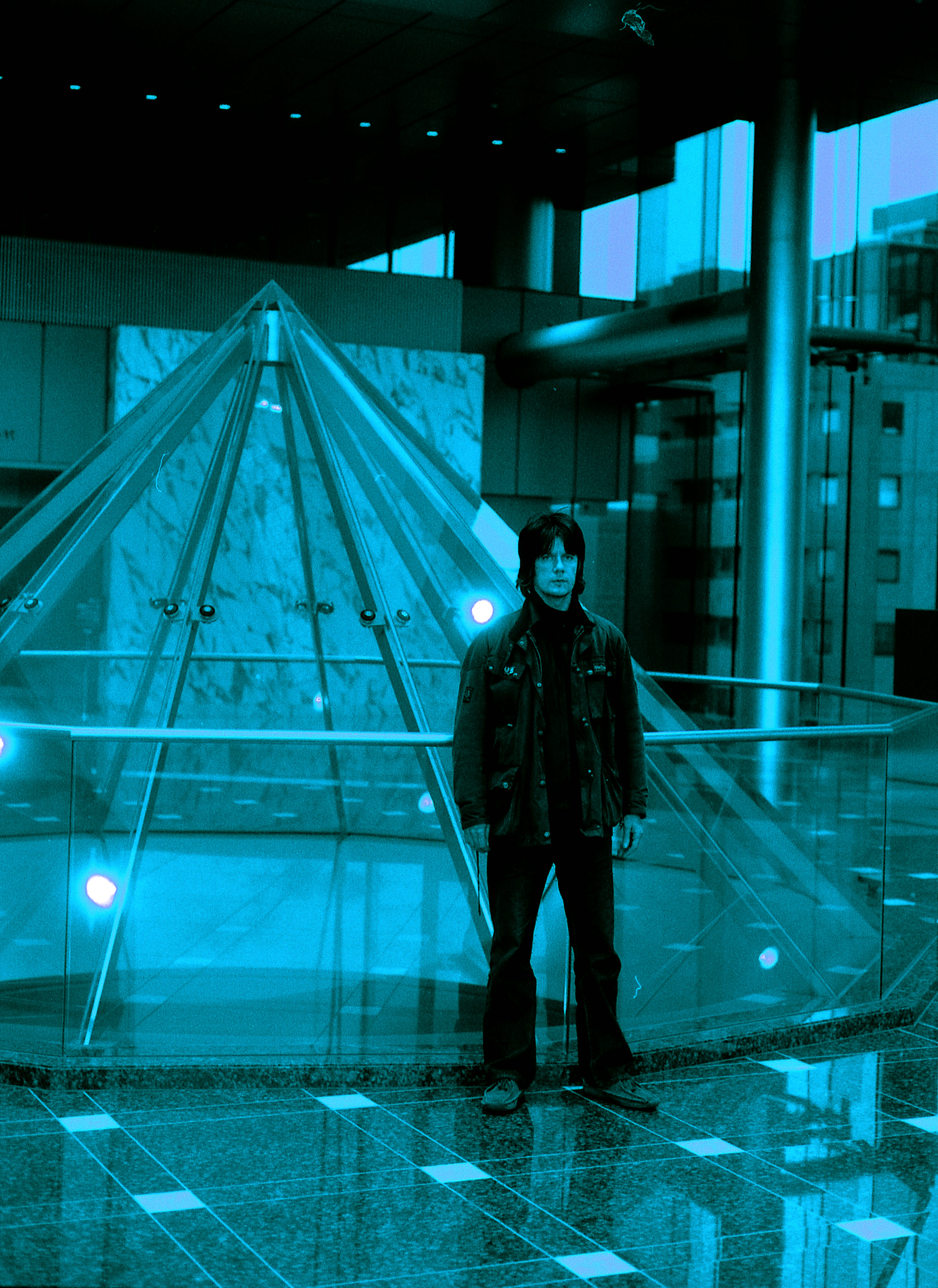 John Squire, formerly the guitarist for The Stone Roses, at Roppongi,Tokyo Japan